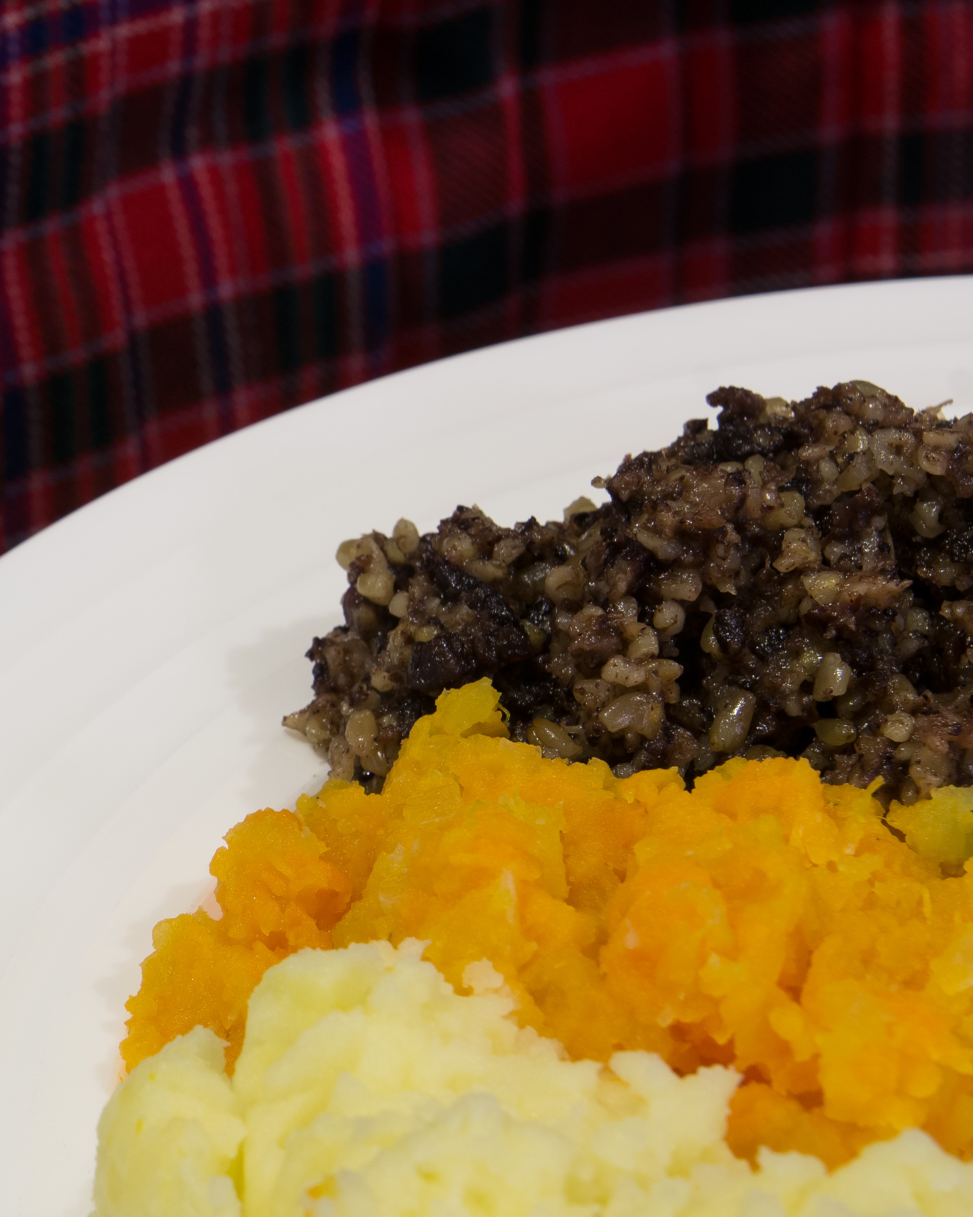 Haggis, neeps and tatties at a Burns Supper on the 25th January. The kilt is in the MacAlister tartan.